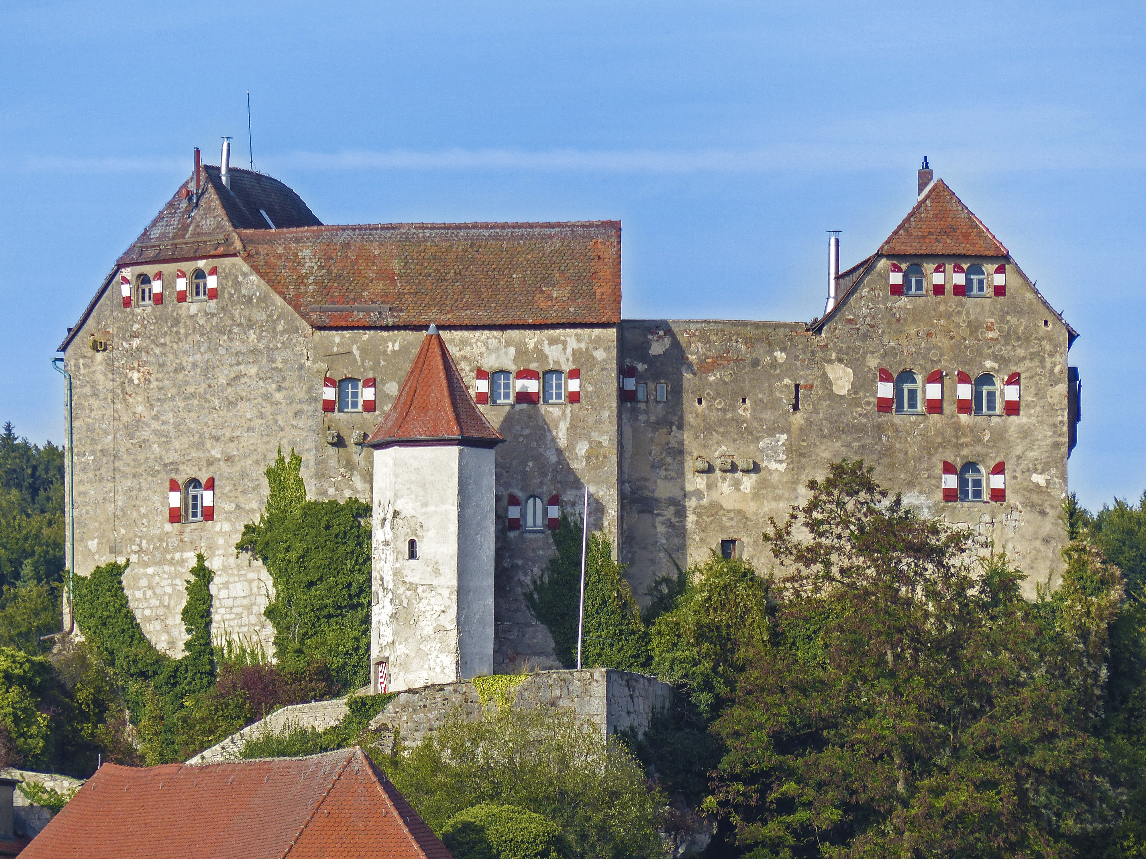 The Hiltpoltstein Castle, situated in the market village Hiltpoltstein